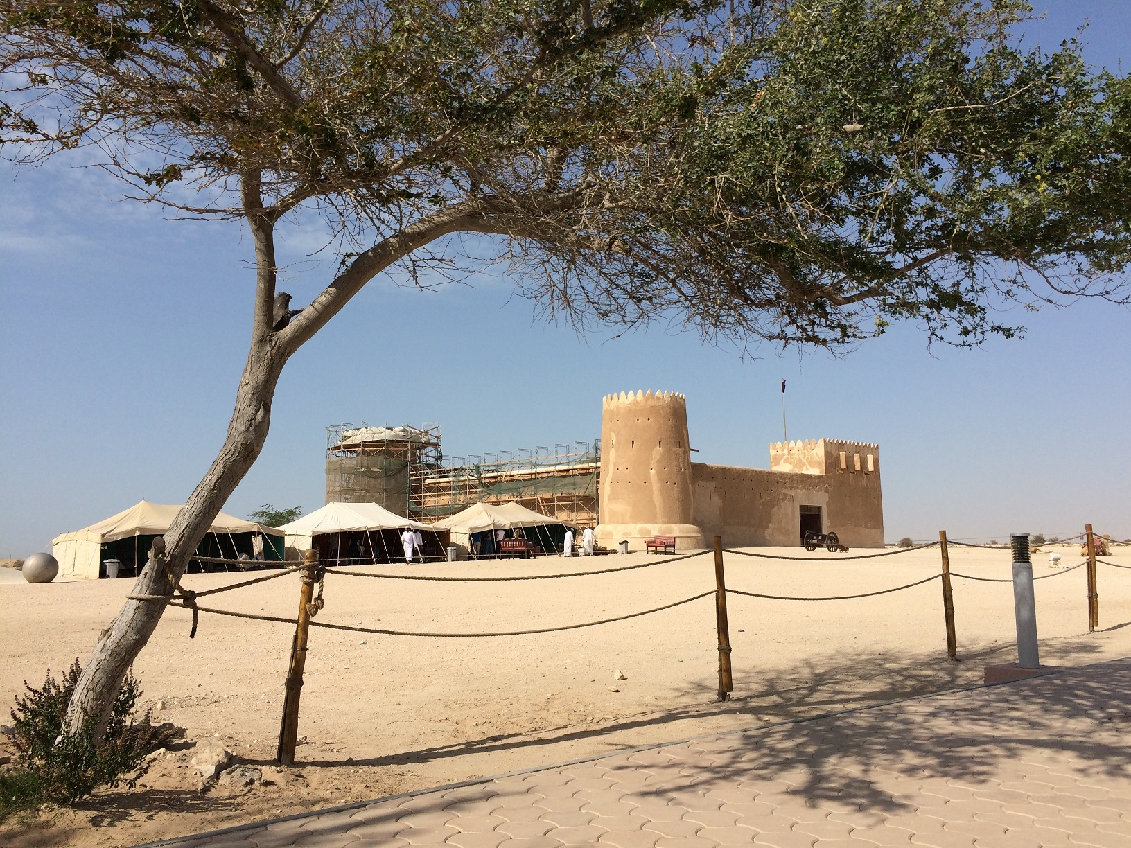 Renovation/restoration activities in 2015 at Zubarah fort, northern Qatar. Note the tents with facilities for tourists.